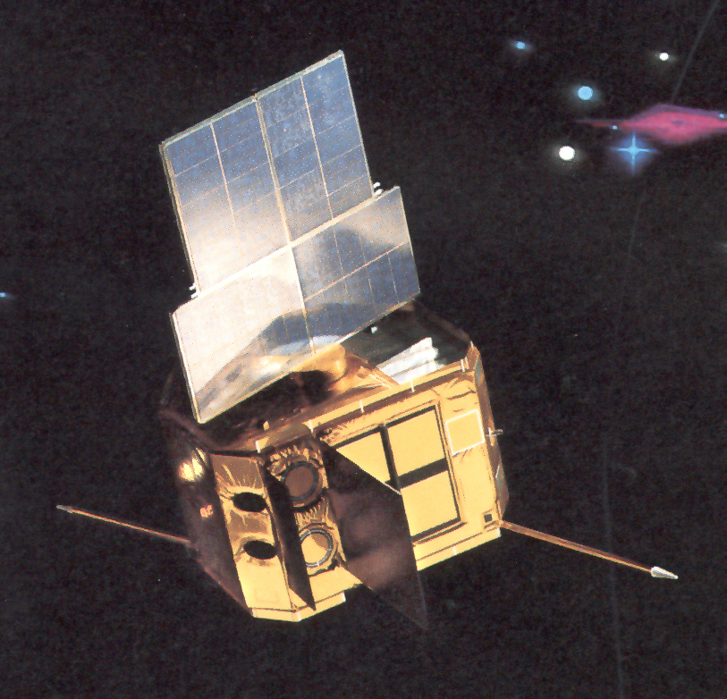 A large picture of Exosat